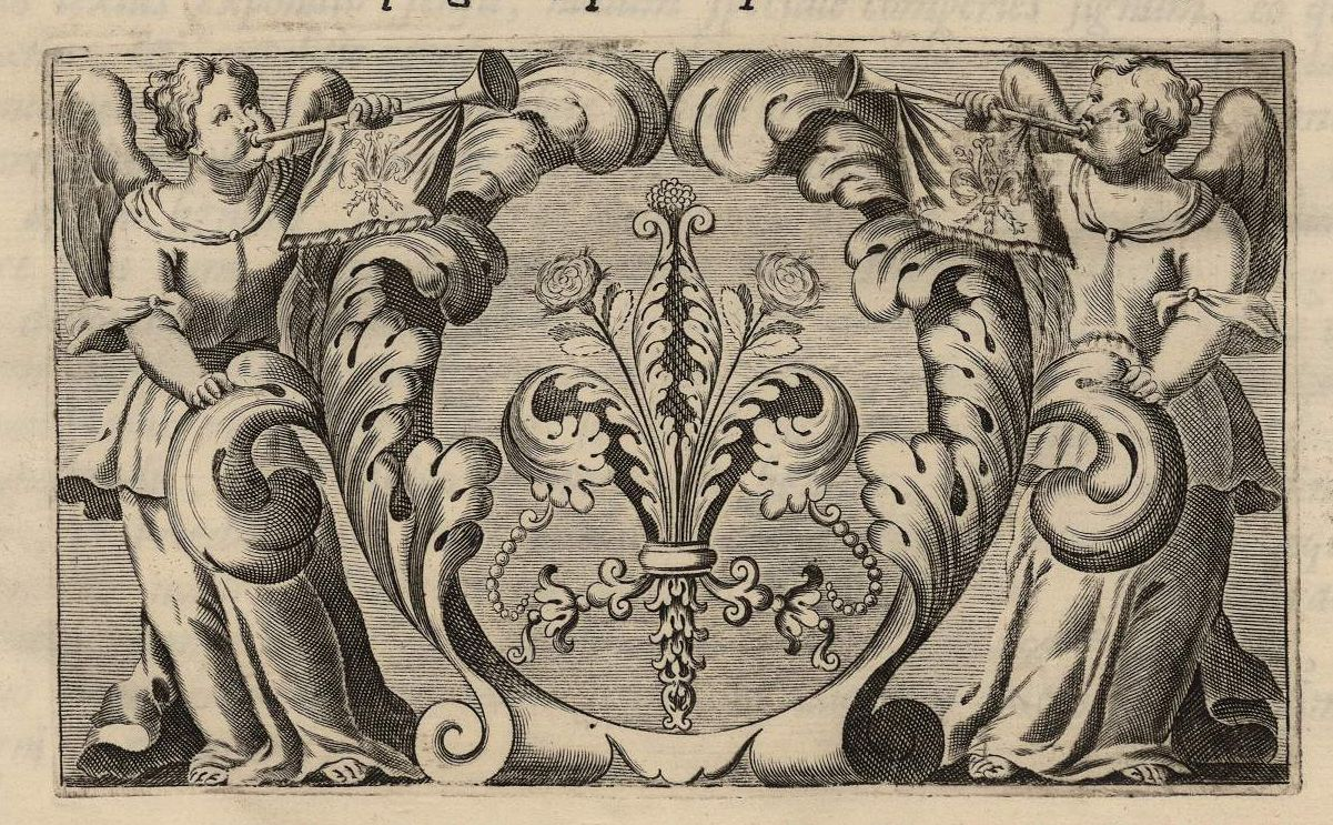 Pezzana's mark